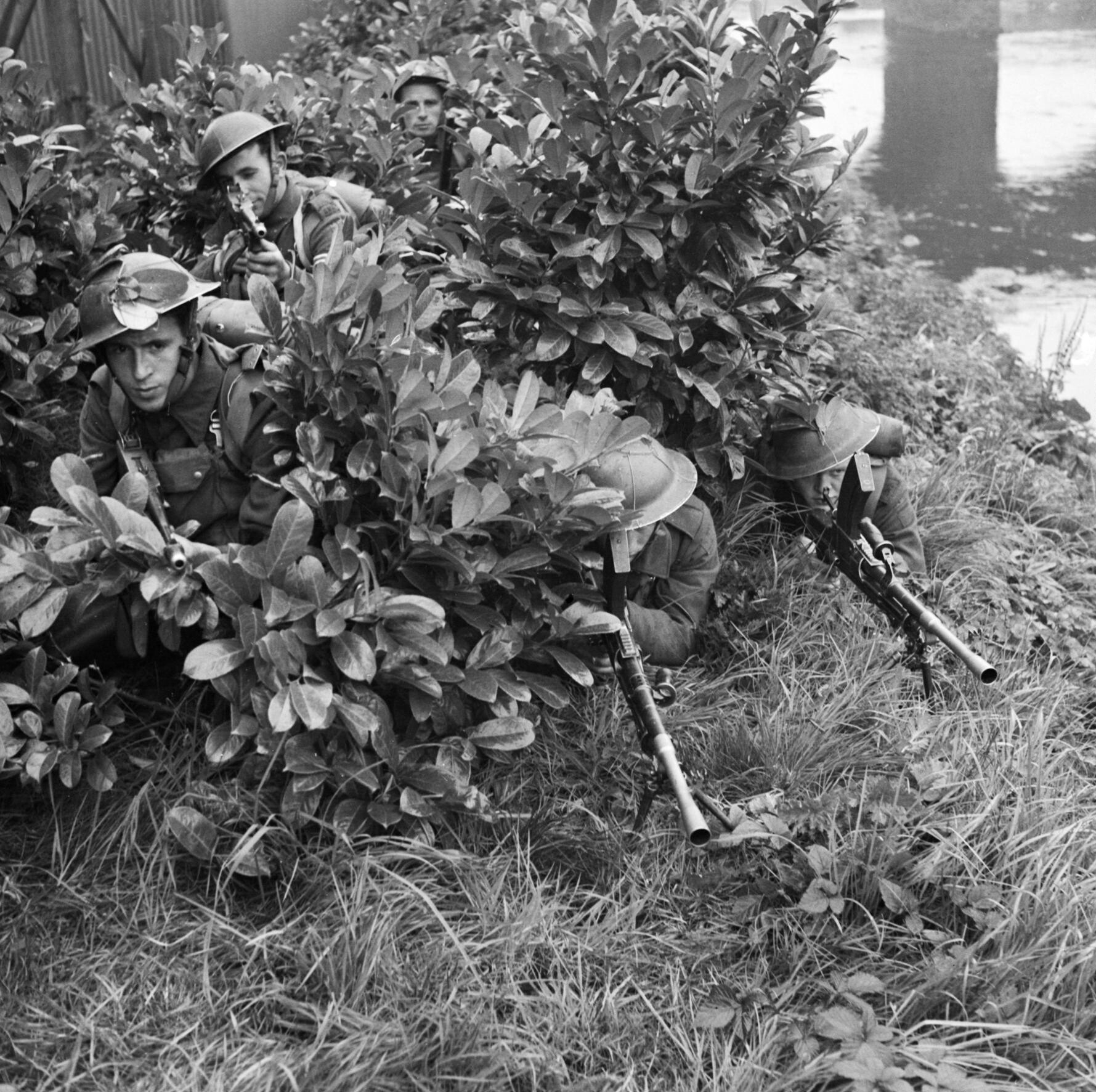 Infantry of the 2nd Battalion, South Wales Borderers hide themselves in a laurel bush during a brigade exercise near Ballymena in Northern Ireland, 19 September 1941. Infantry of the 2nd Battalion, South Wales Borderers hide themselves in a laurel bush during a brigade exercise near Ballymena in Northern Ireland, 19 September 1941.